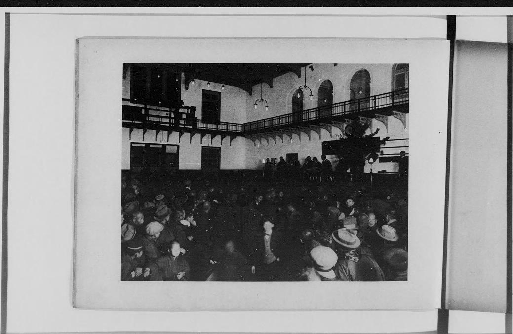 The Dojima Rice Exchange, Osaka (1914)